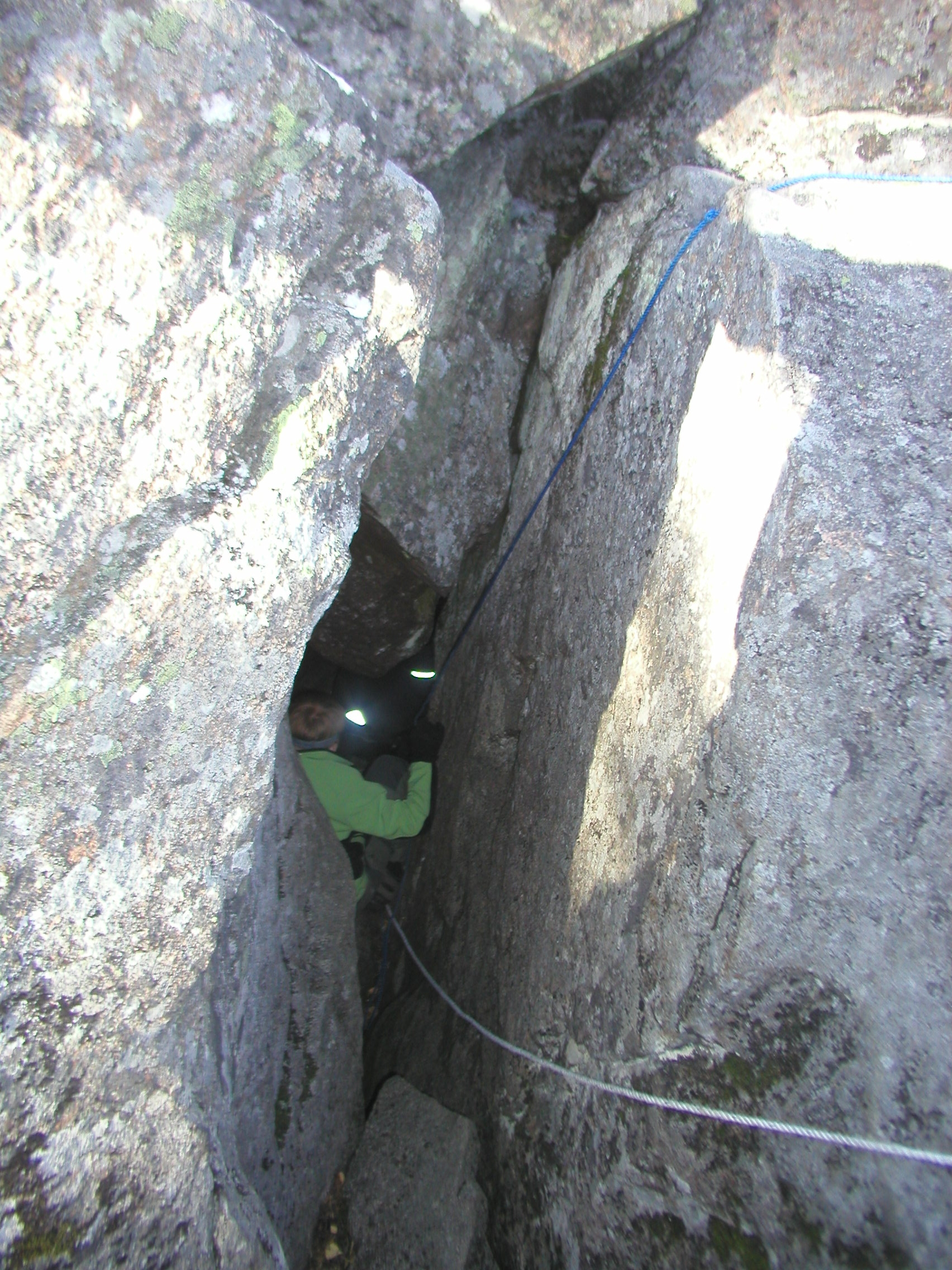 One of the entrances to the cave system Rudtjärnsgrottorna in Sweden.